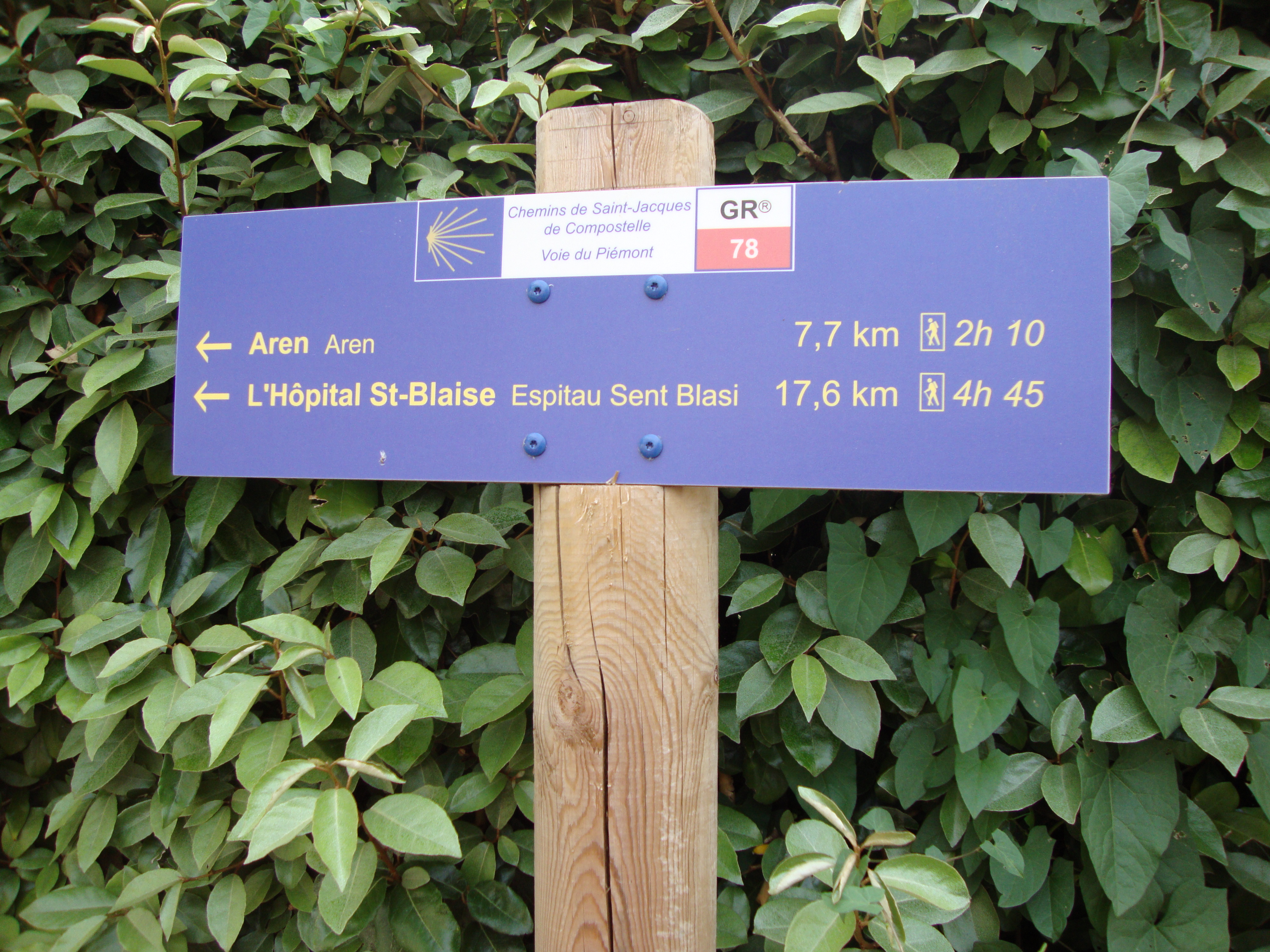 Moumour_(Pyr-Atl,_Fr)_footpath fingerpost Way of Saint James.